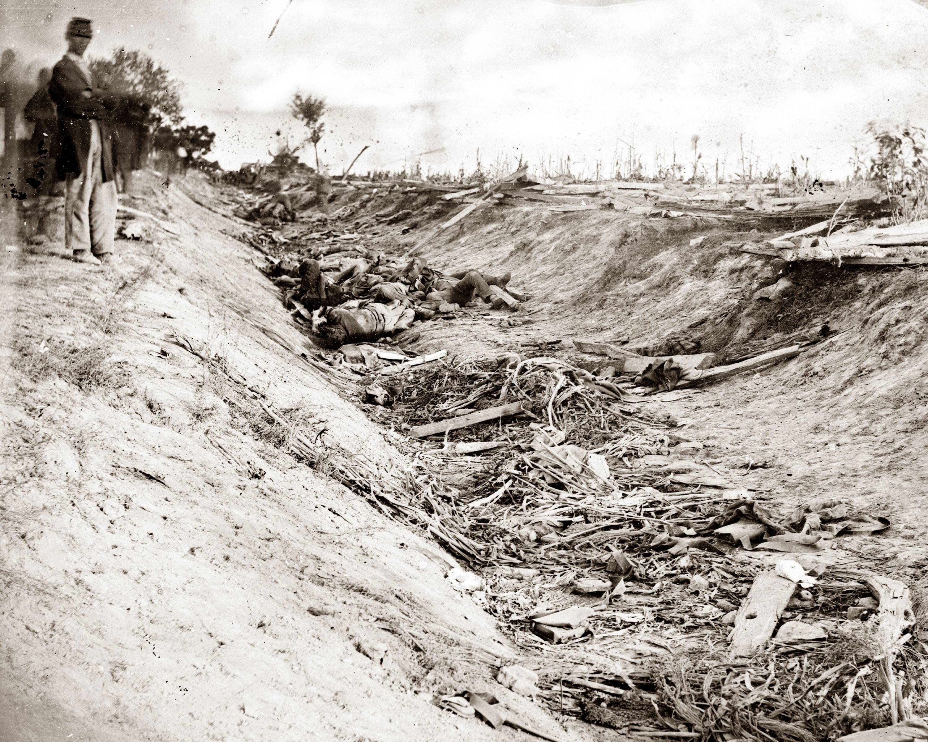 Antietam, Maryland; Confederate dead at Bloody Lane, looking east from the north bank.